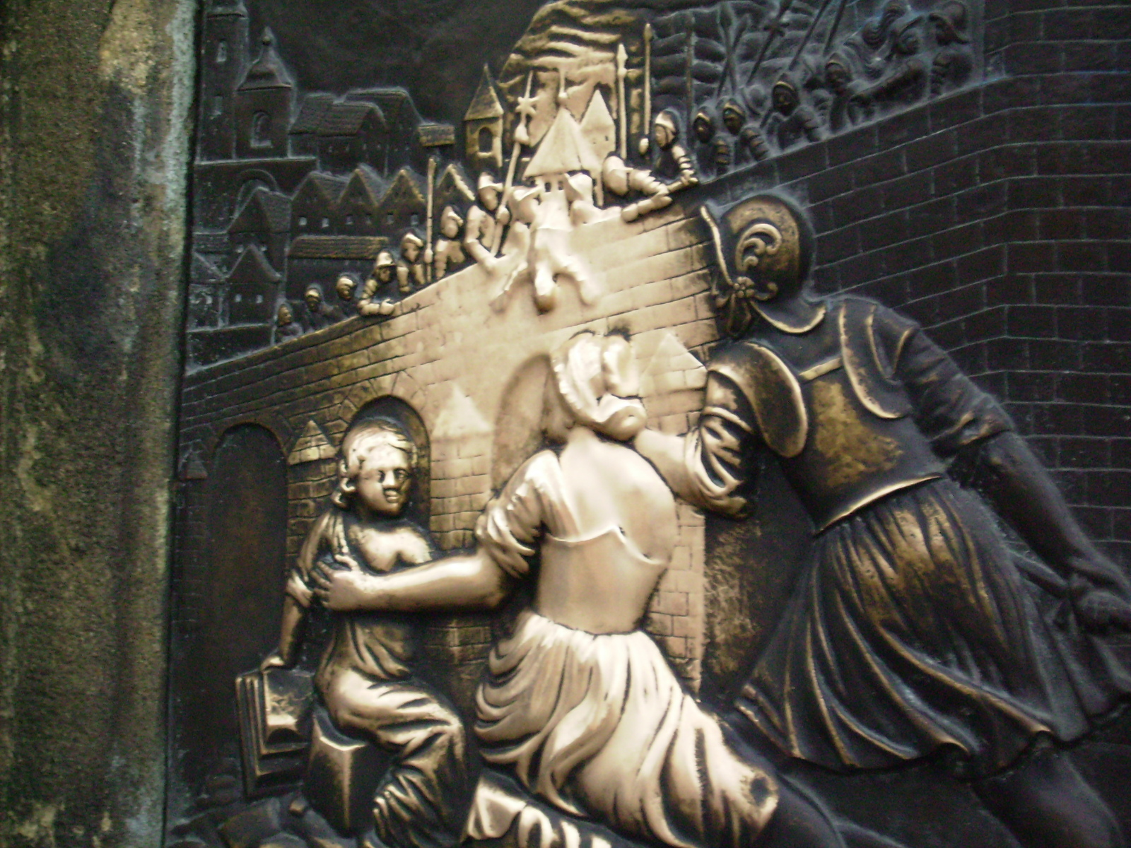 Relief on the right side of the base of the statue of John Nepomucene on the Charles Bridge, Prague. Rubbing the little figure hanging from the bridge (Nepomucene) is either supposed to bring good luck, or bring you back to Prague again (like throwing a coin in the Trevi fountain will one day bring you back to Rome).